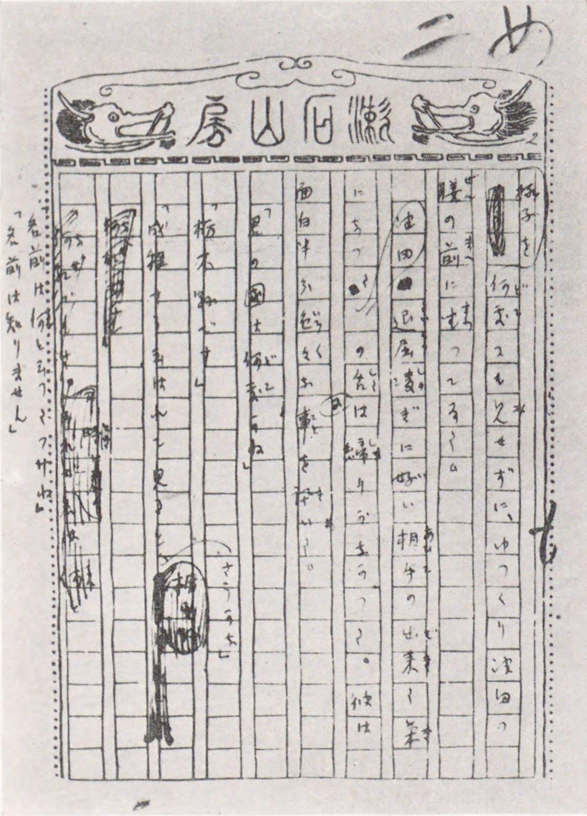 Part of manuscripts of "Light and Darkness" by Natsume Soseki.